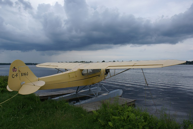 A Canadian registered Piper J-3 Cub on floats (C-FXNU). Photo taken on Lac a la Tortue, Quebec, Canada